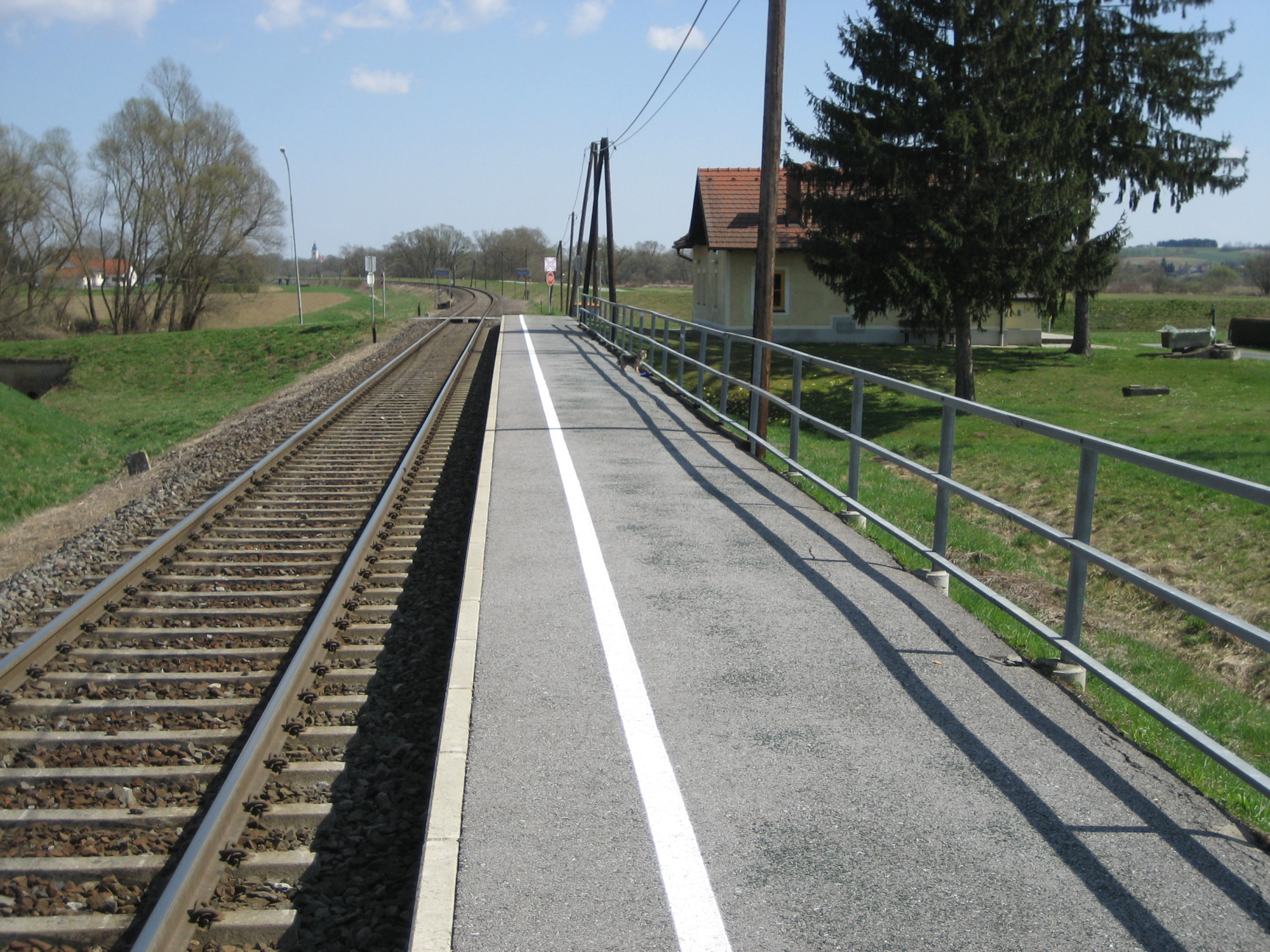 train station Mogersdorf in Burgenland